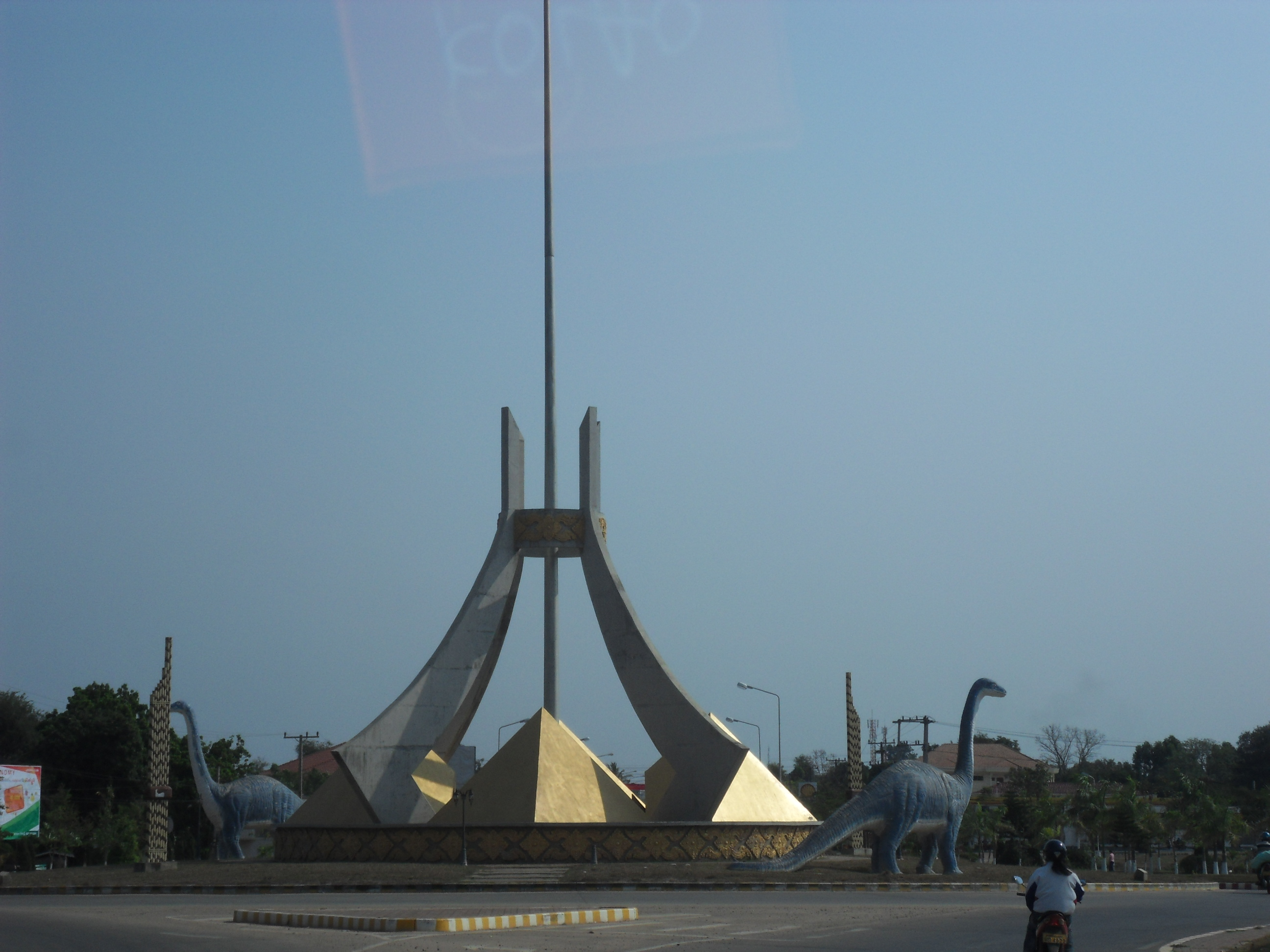 Roundabout in Savannakhet, Laos, with Tangvayosaurus hoffetti